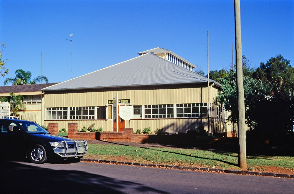 De Molay House (2000), formerly Old Toowoomba Court House